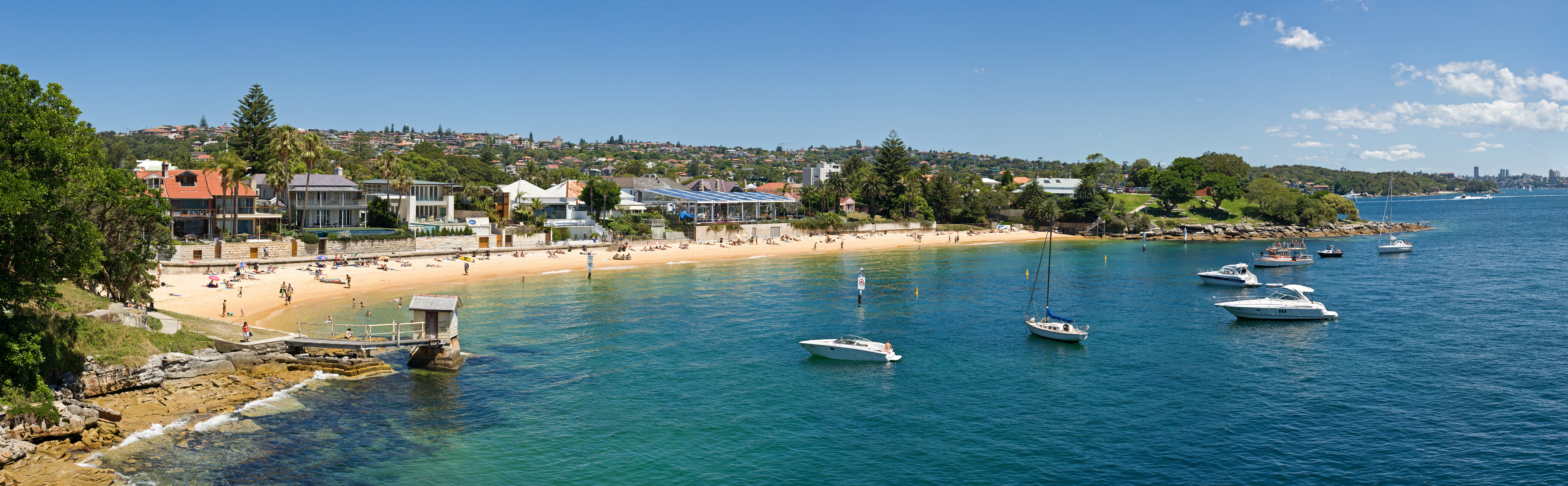 A panoramic view of Camp Cove beach in Watson's Bay, Sydney, Australia. Taken by myself with a Canon 5D and 100mm f/2.8 macro lens.